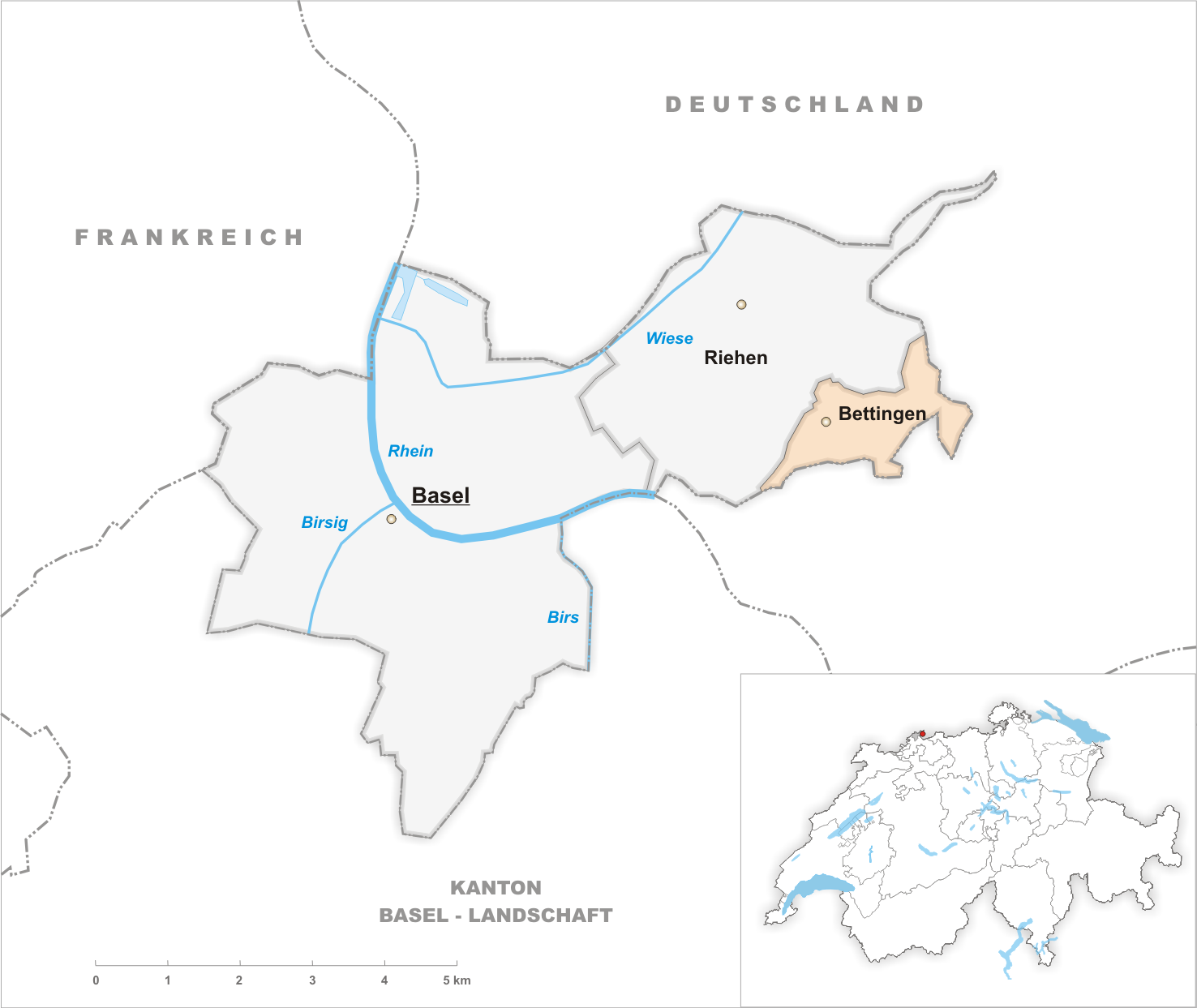 Municipality of Bettingen